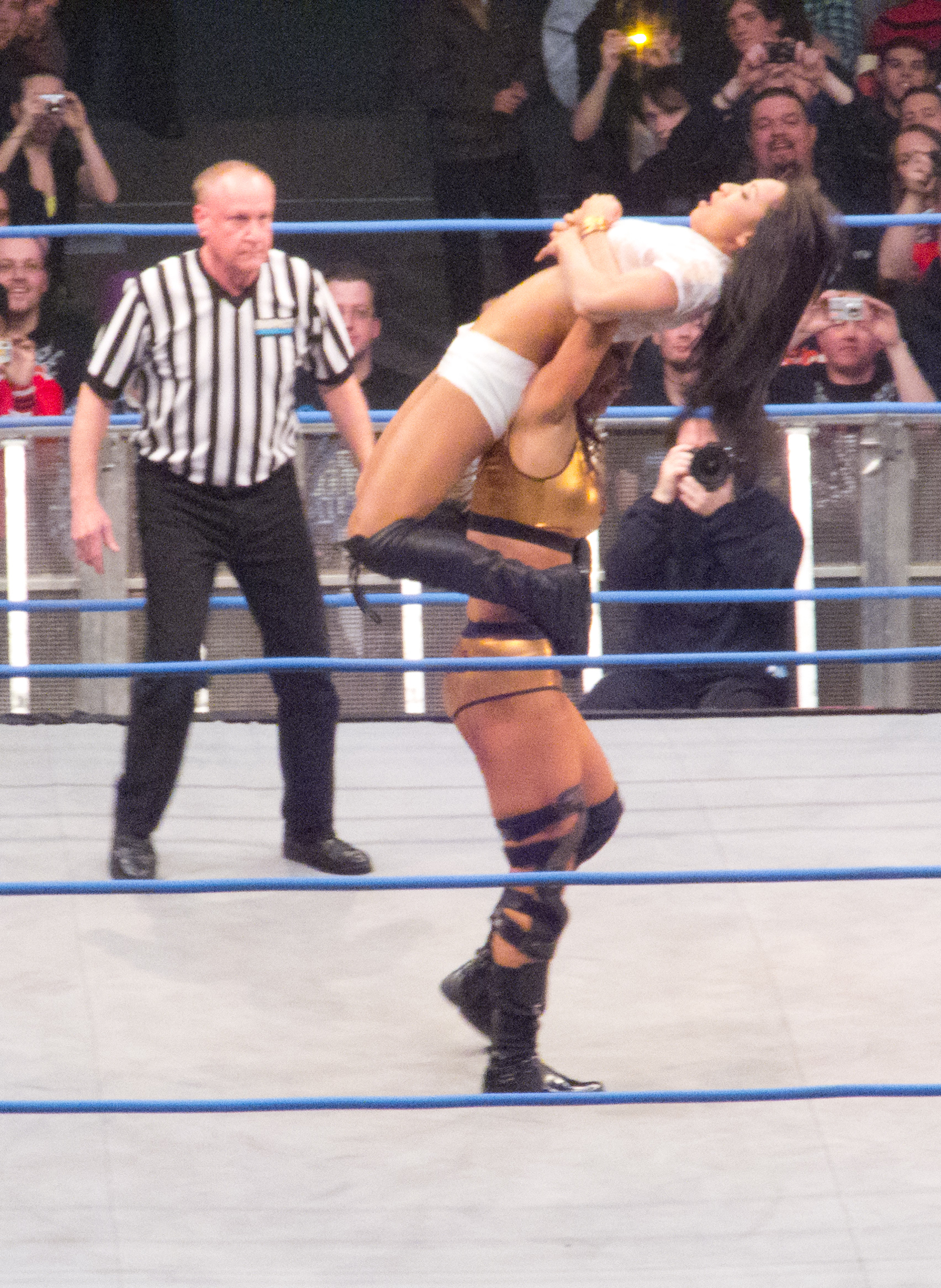 Victoria performing her Widow's Peak Gory special on Gail Kim at Wembley Arena, January 2012.